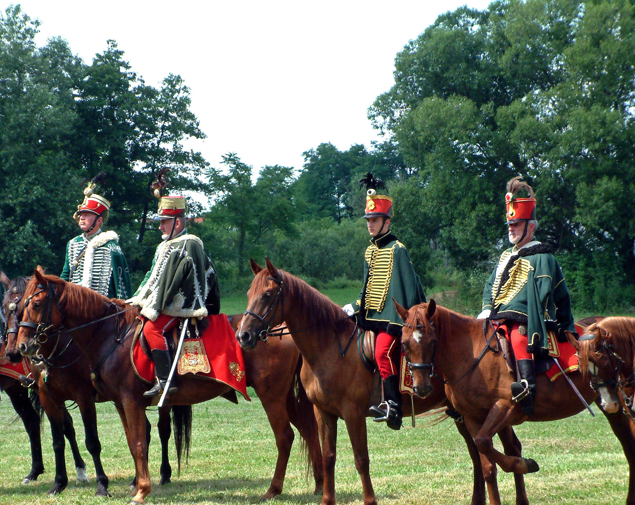 Hussars in Diszel, Hungary